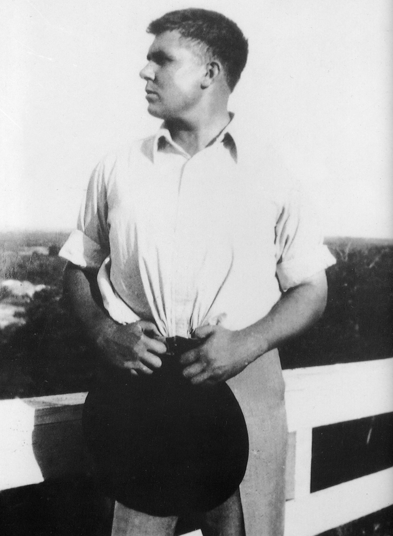 Photograph of Robert E. Howard